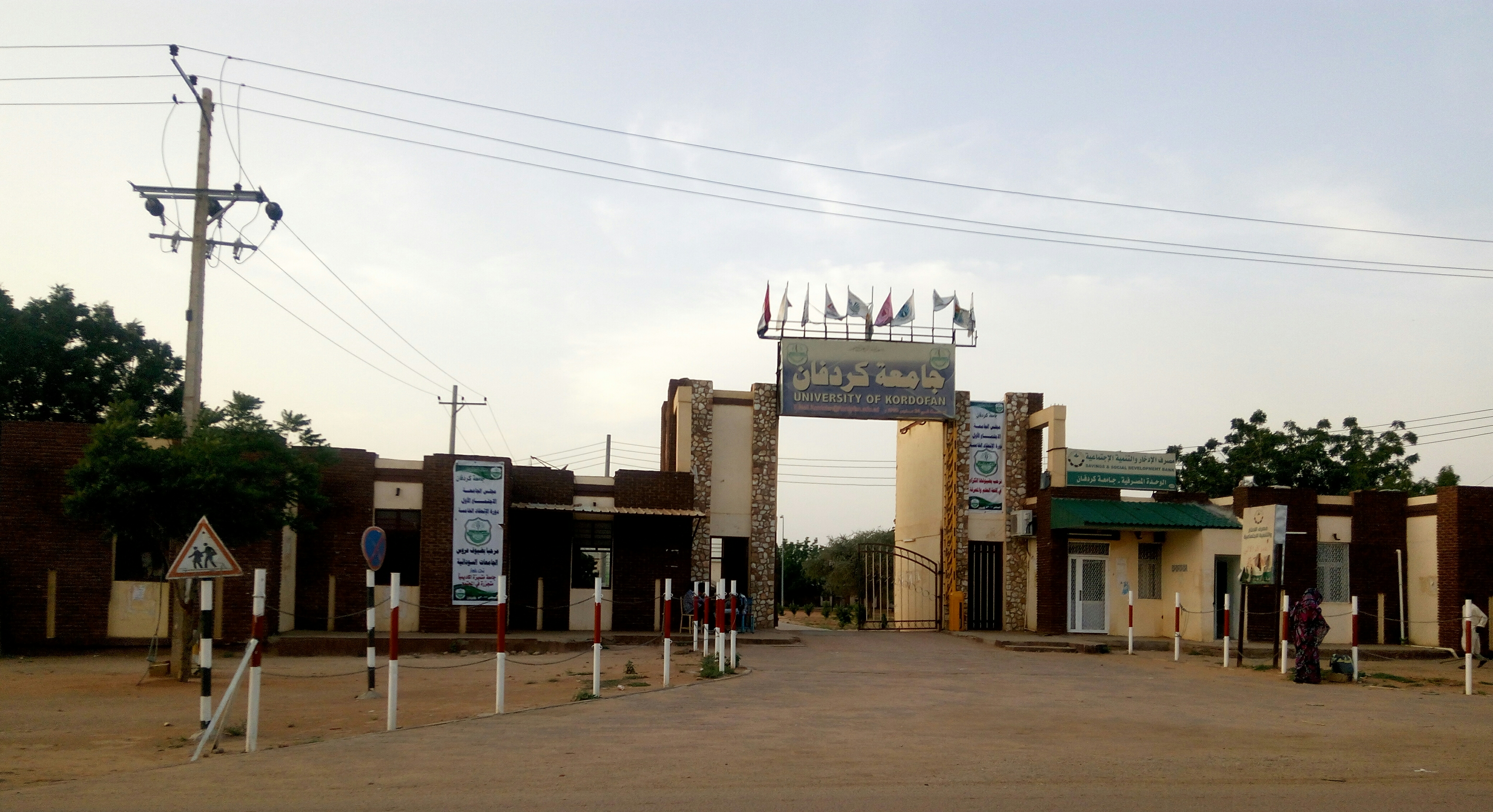 University of Kordufan, main campus